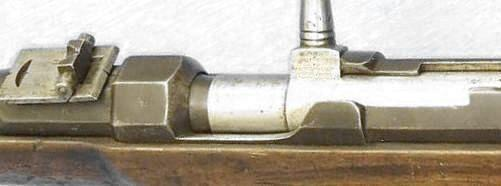 Close-up Barrel and Bolt of Dreyse M1841.